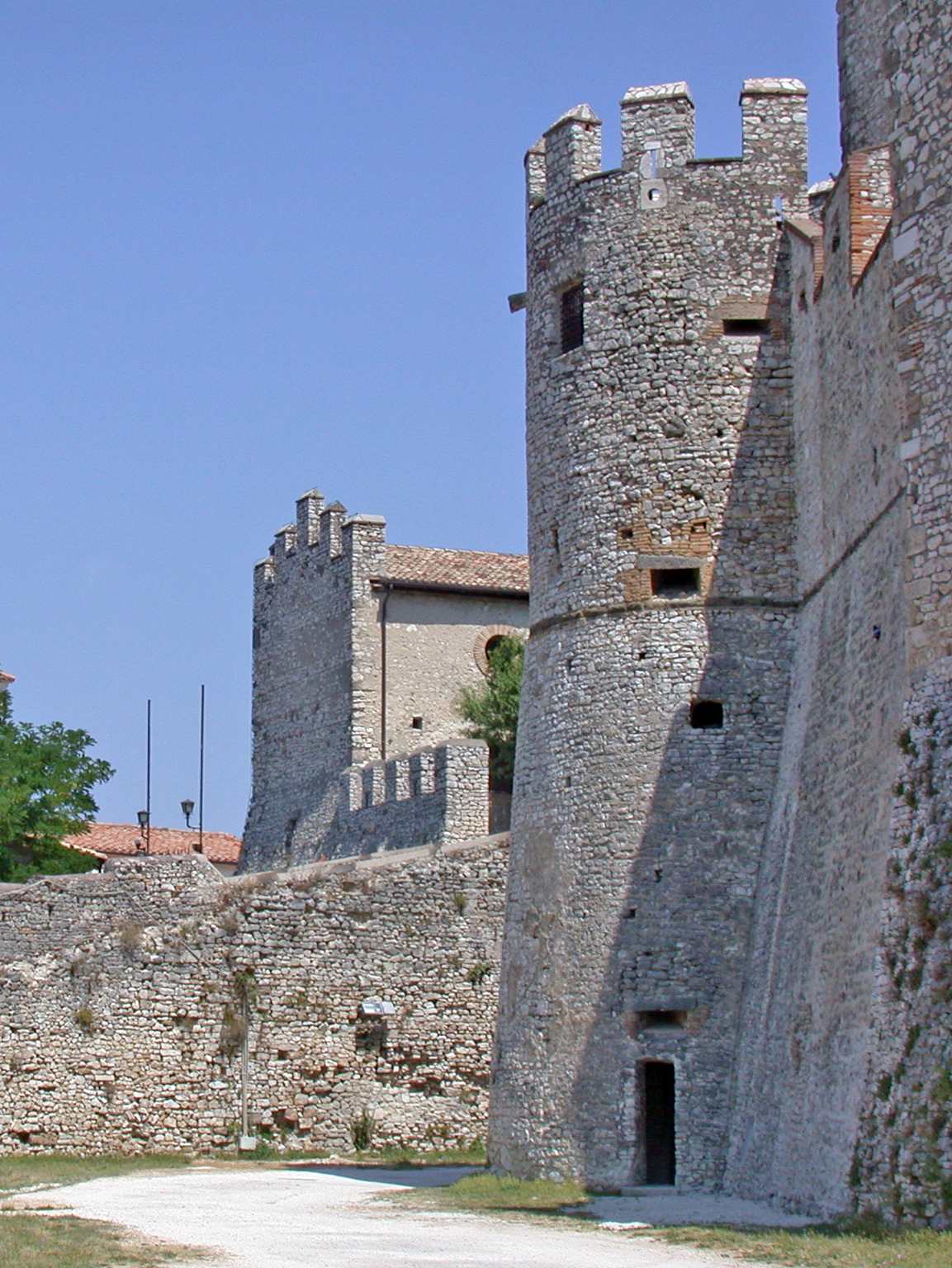 Castello Orsini in Nerola (provincia di Roma, Latium, Italy). Personal photo (june 2005) by MM in it.wiki